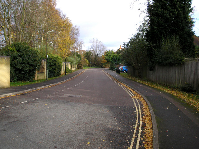 Charlbury Road (East), Oxford At its junction with Belbroughton Road, Charlbury Road takes a right-angle turn. This is looking east along the eastern arm of the road